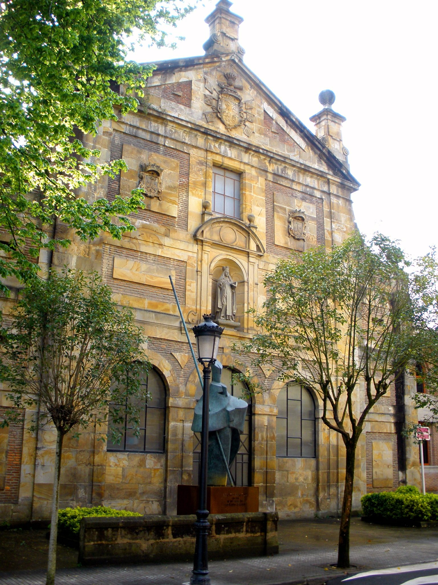 Monasterio de Santa Teresa (PP Benedictinos), en Lazkao (Guipúzcoa, País Vasco, España)